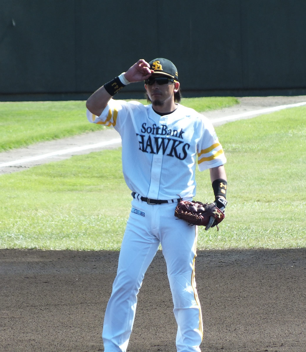 Nobuhiro Matsuda, infielder of the Fukuoka SoftBank Hawks, at Gannosu Recreation Center Baseball Ground.